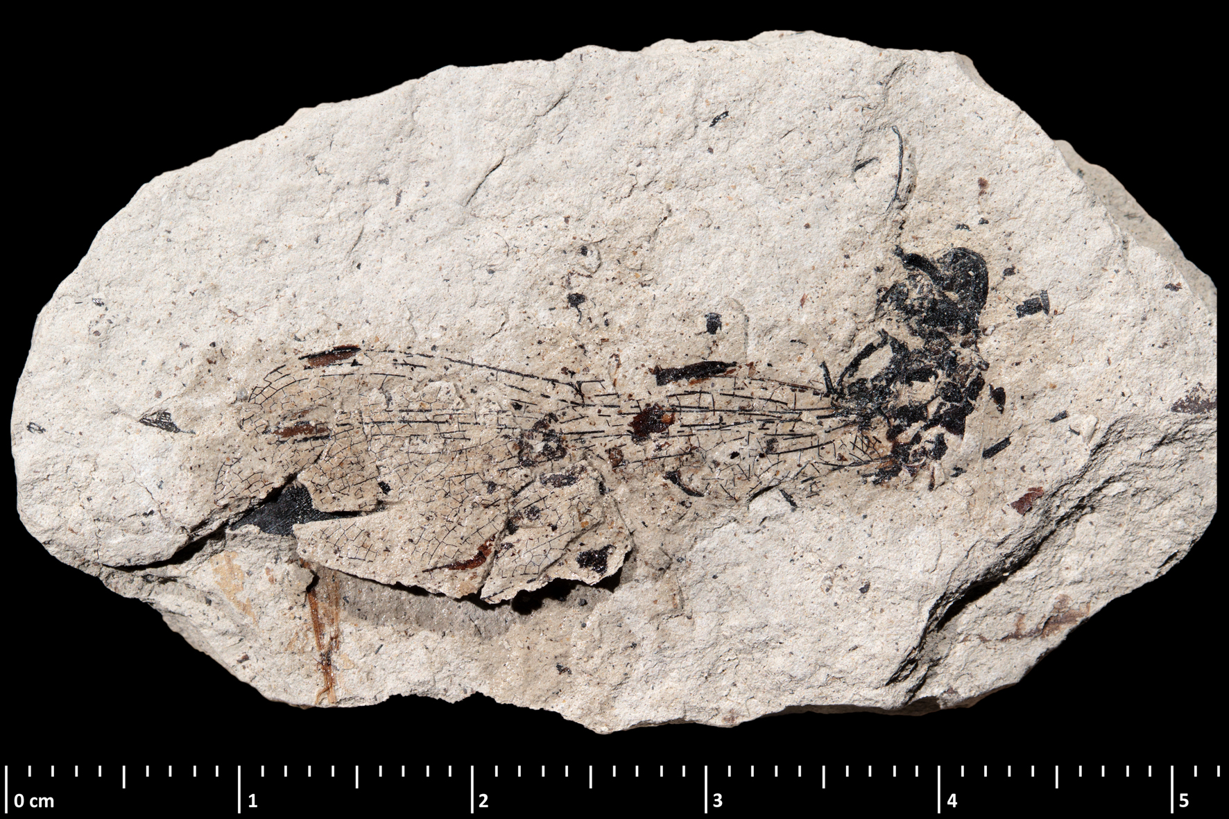 The Sympetrum cantalensis holotype specimen part side with direct lighting. Messinian, Miocene; Foufouilloux outcrop, Sainte-Reine, Cantal, France Muséum national d'Histoire naturelle specimen MNHN.F.R10446